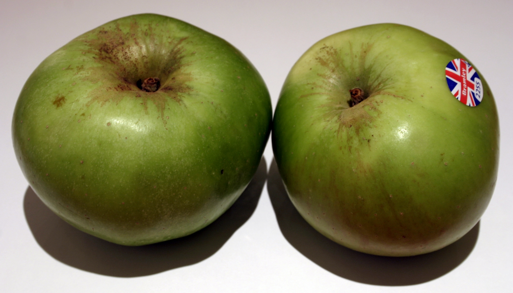 Bramley Apple from Nottinghamshire